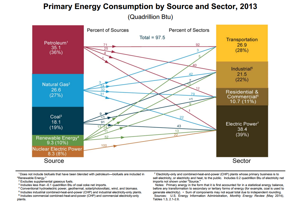 United States primary energy consumption by source and sector in 2013